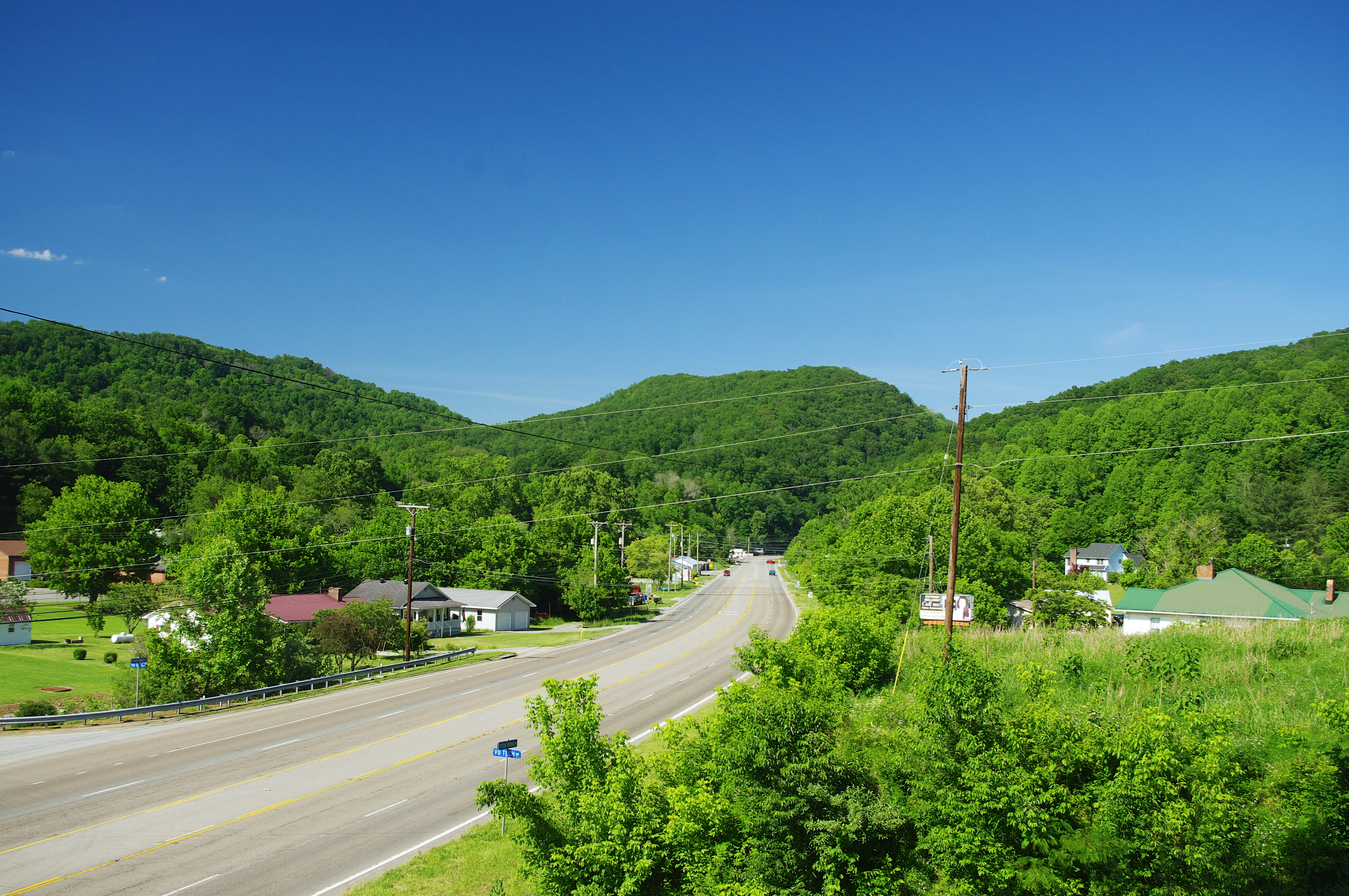 U.S. Route 58 viewed from the Corinth Church Cemetery in Ben Hur, Virginia, United States.